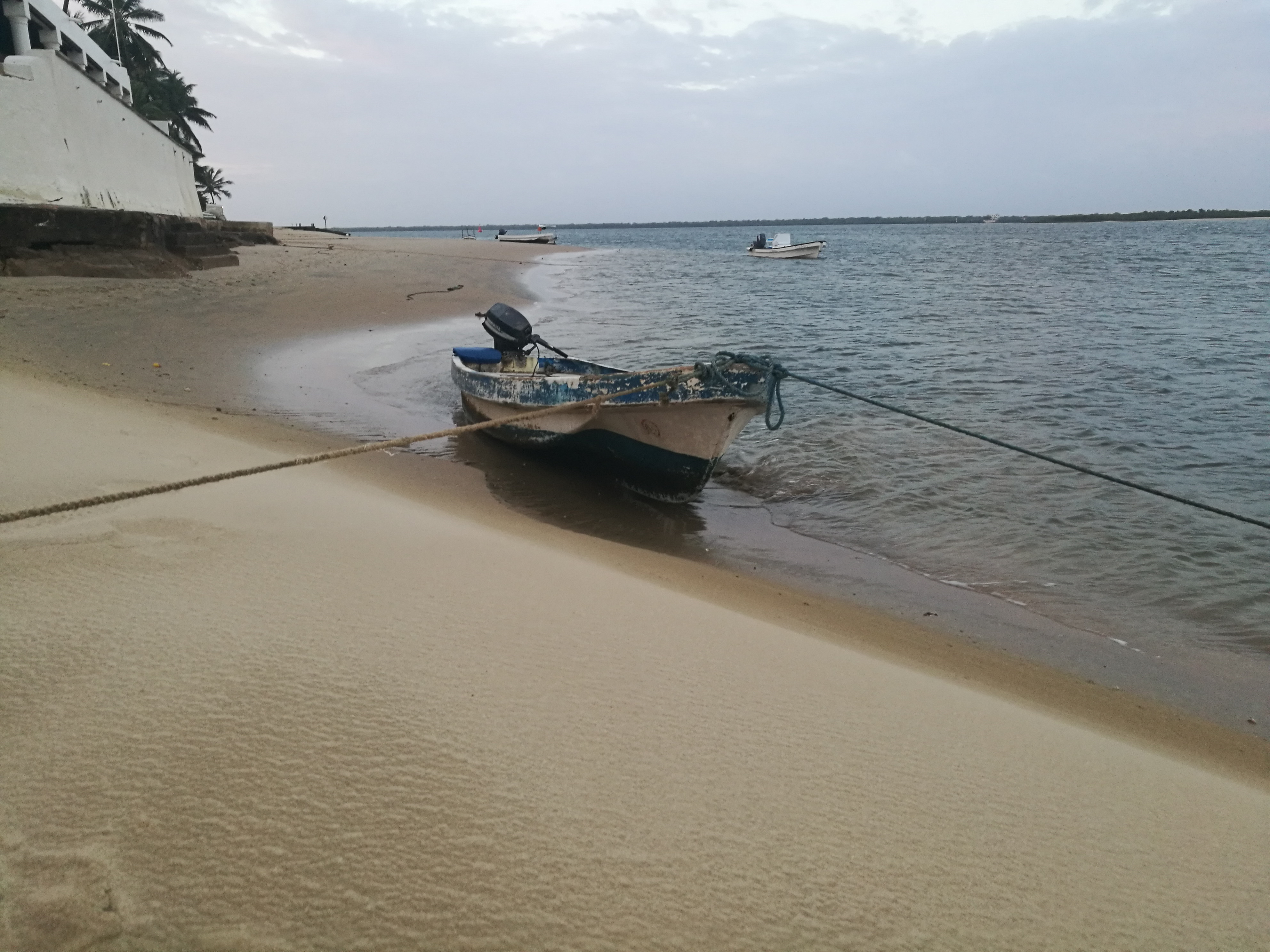 An anchored boat on the seashore in Shela Village, Lamu Island, Kenya where boats and donkeys are the main modes of transportation This is an image with the theme "Africa on the Move or Transport" from: Kenya